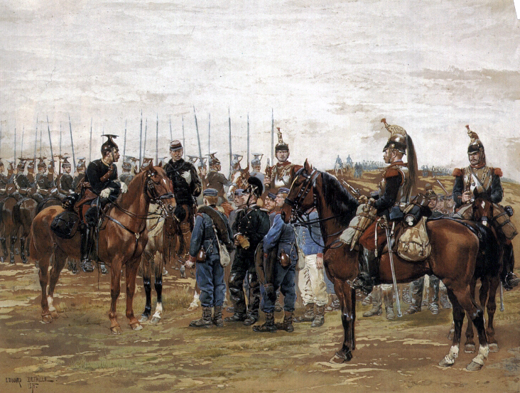 A French Cavalry Officer Guarding Captured Bavarian Soldiers, Watercolor with gouache, private collection.